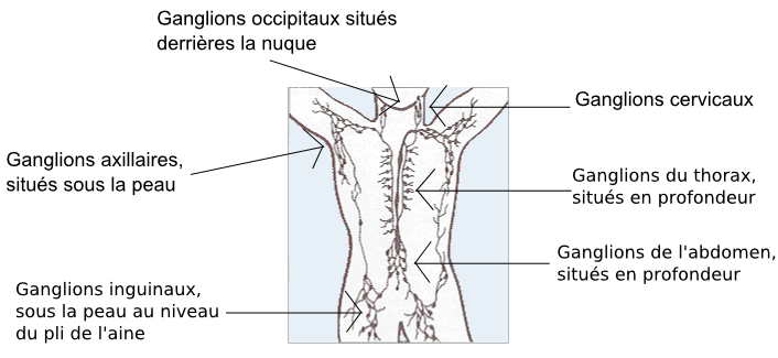 position of main lymph nodes